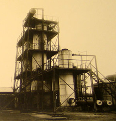 The Factory of Shukhov cracking process by the great Russian engineer and scientist Vladimir Shukhov (1853-1939) in 1934.